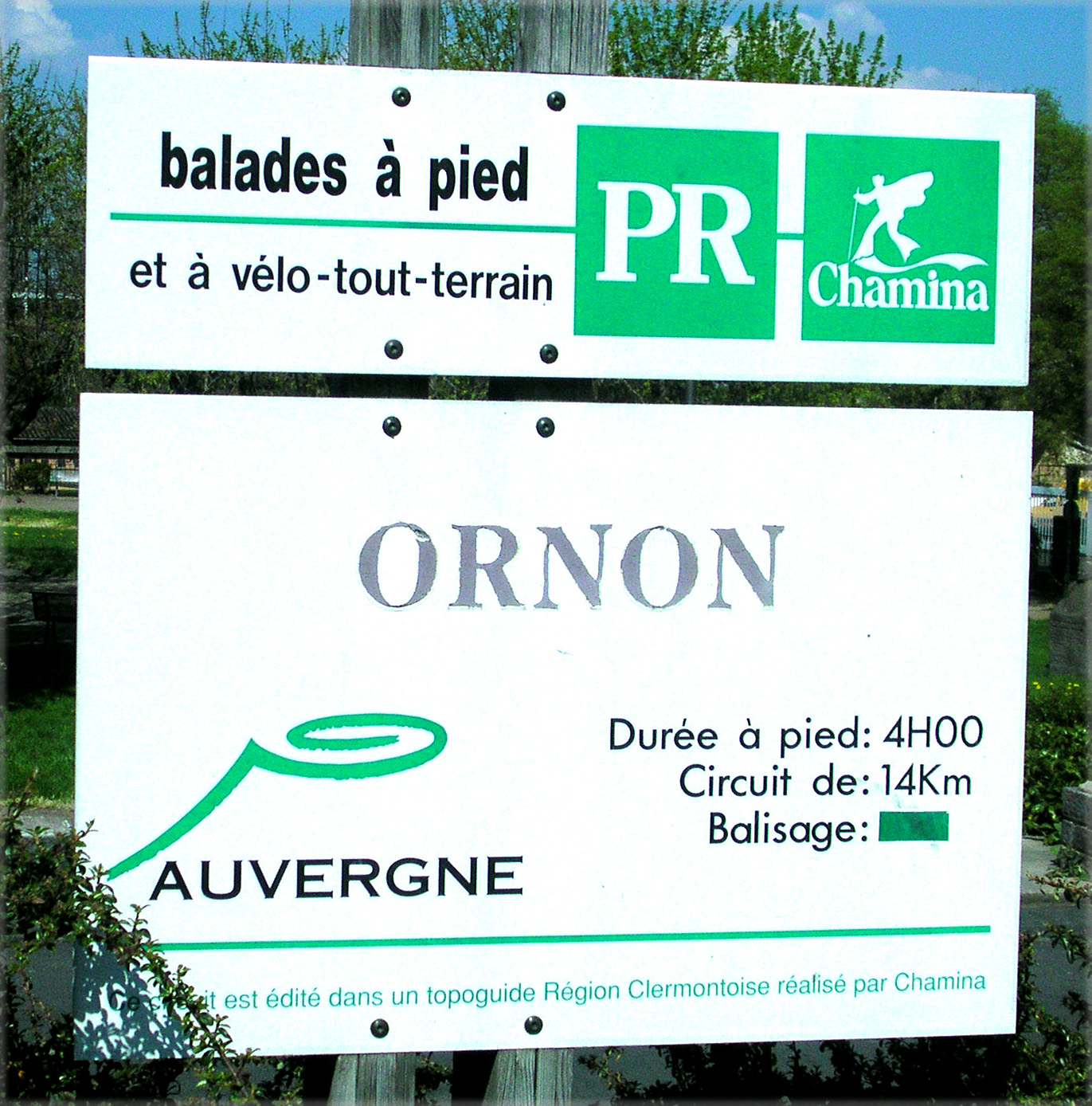 Starting point of an hiking path near Clermont-Ferrand Auteur/Author Romary avril/April 2006